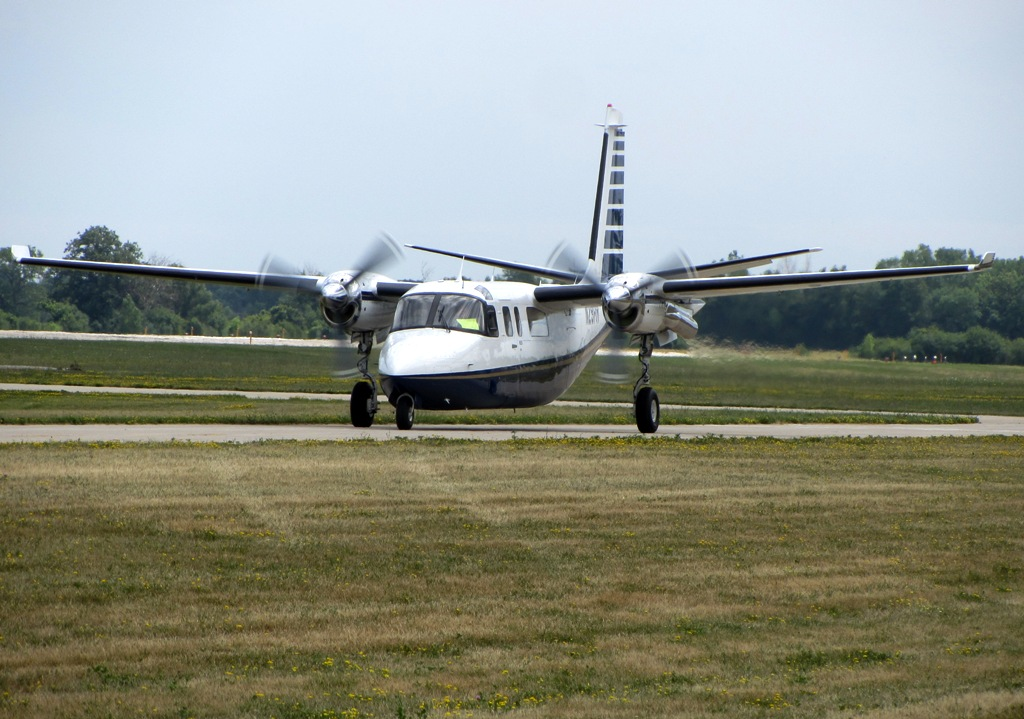 1969 Aero Commander 681